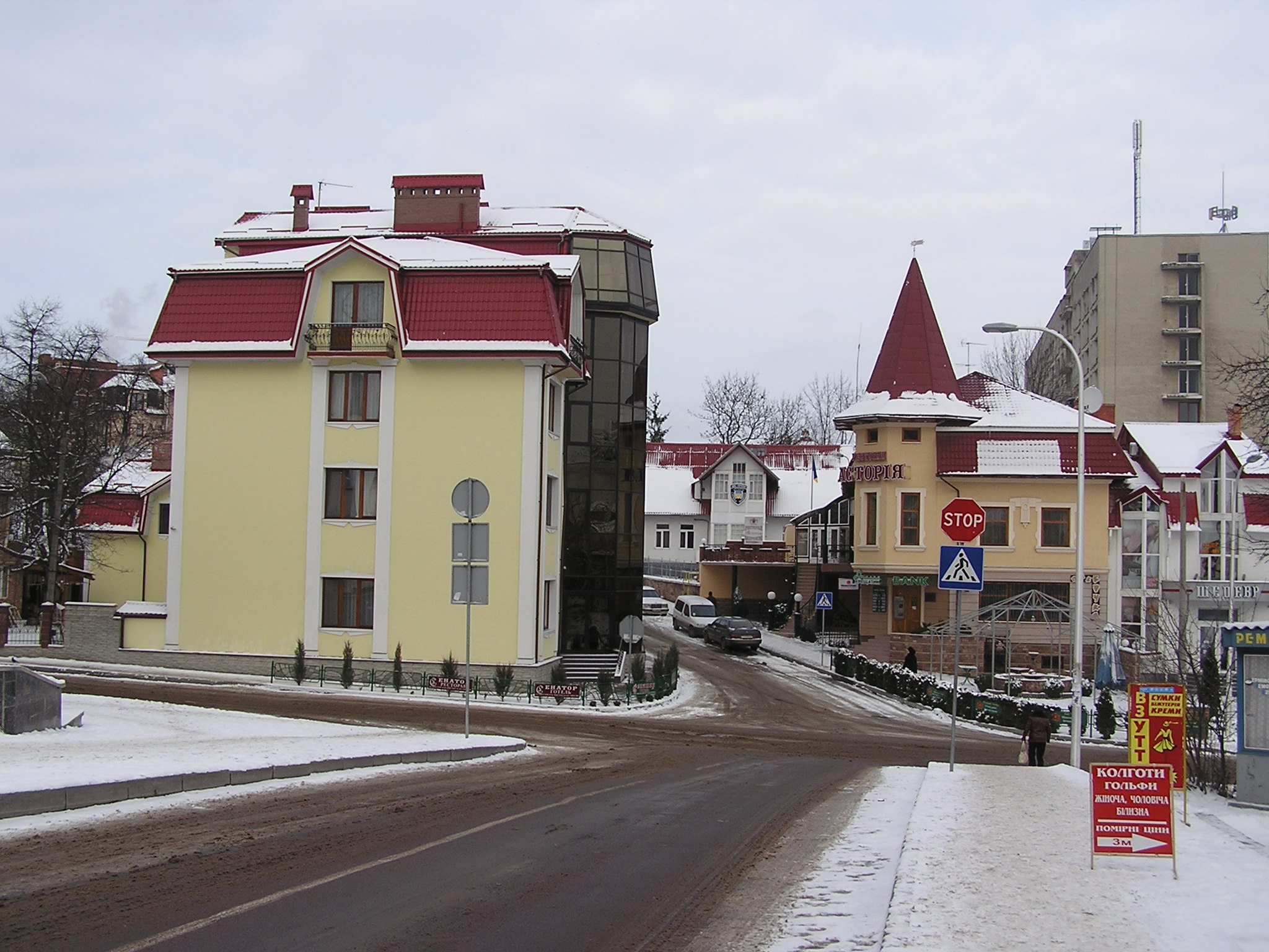 Truskavets